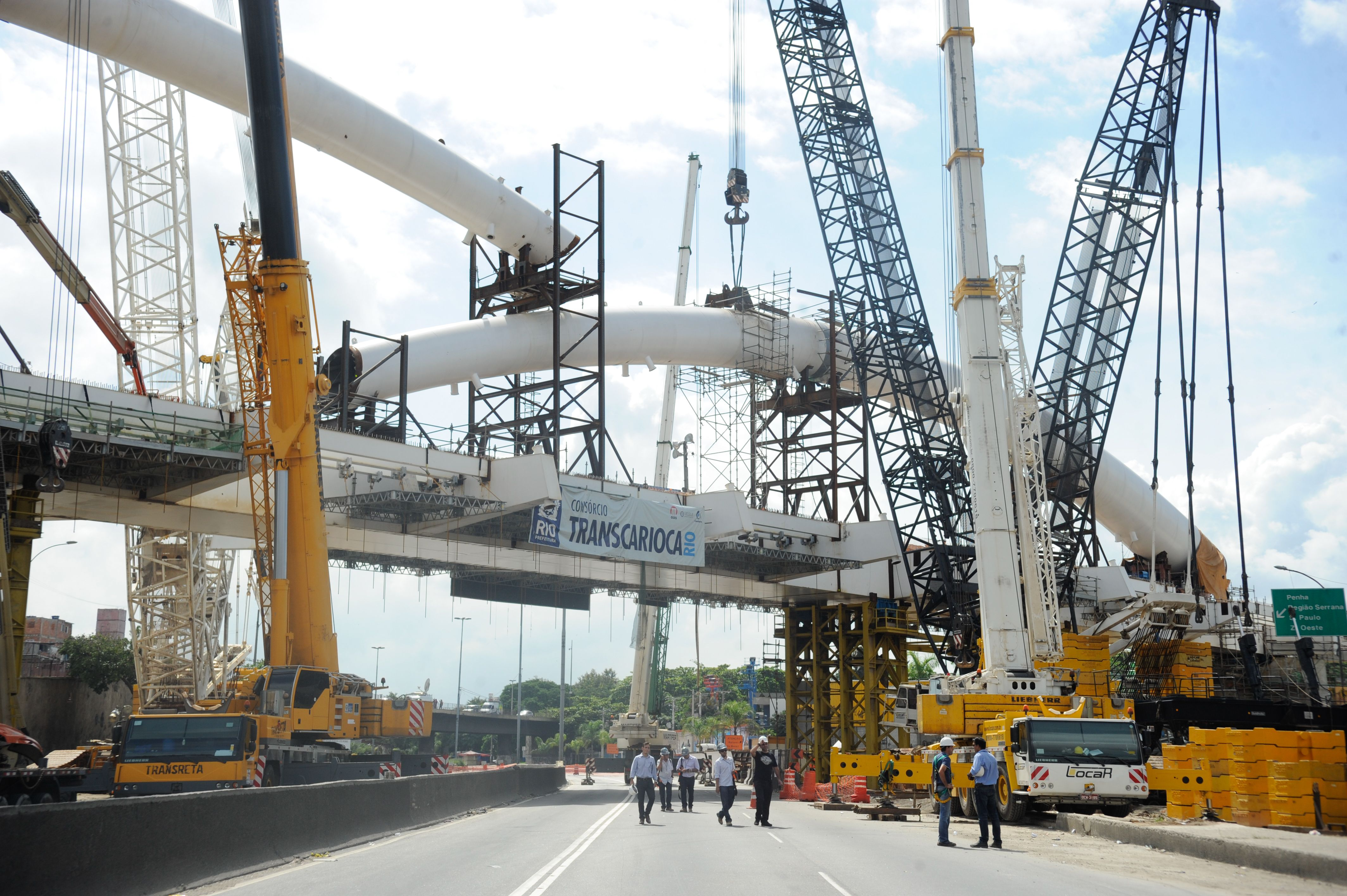 Construction of Transcarioca in Rio de Janeiro. Photo by Tânia Rêgo/Agência Brasil published under a CCBY3.0 license